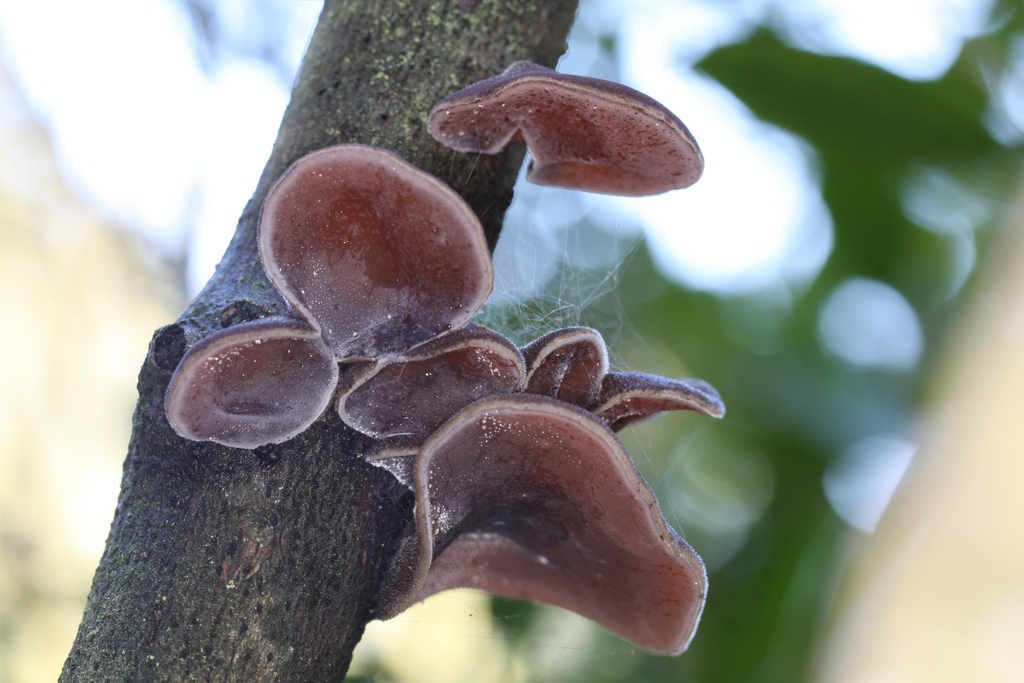 Found growing on a mangrove in Lane Cove National Park.